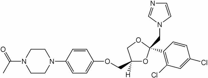 Description: Chemical structure of ketoconazole Author, date of creation: selfmade by Shaddack, 1 October 2005 Source: self-made Copyright: Public Domain (PD) Comments: b/w hires PNG; ChemDraw